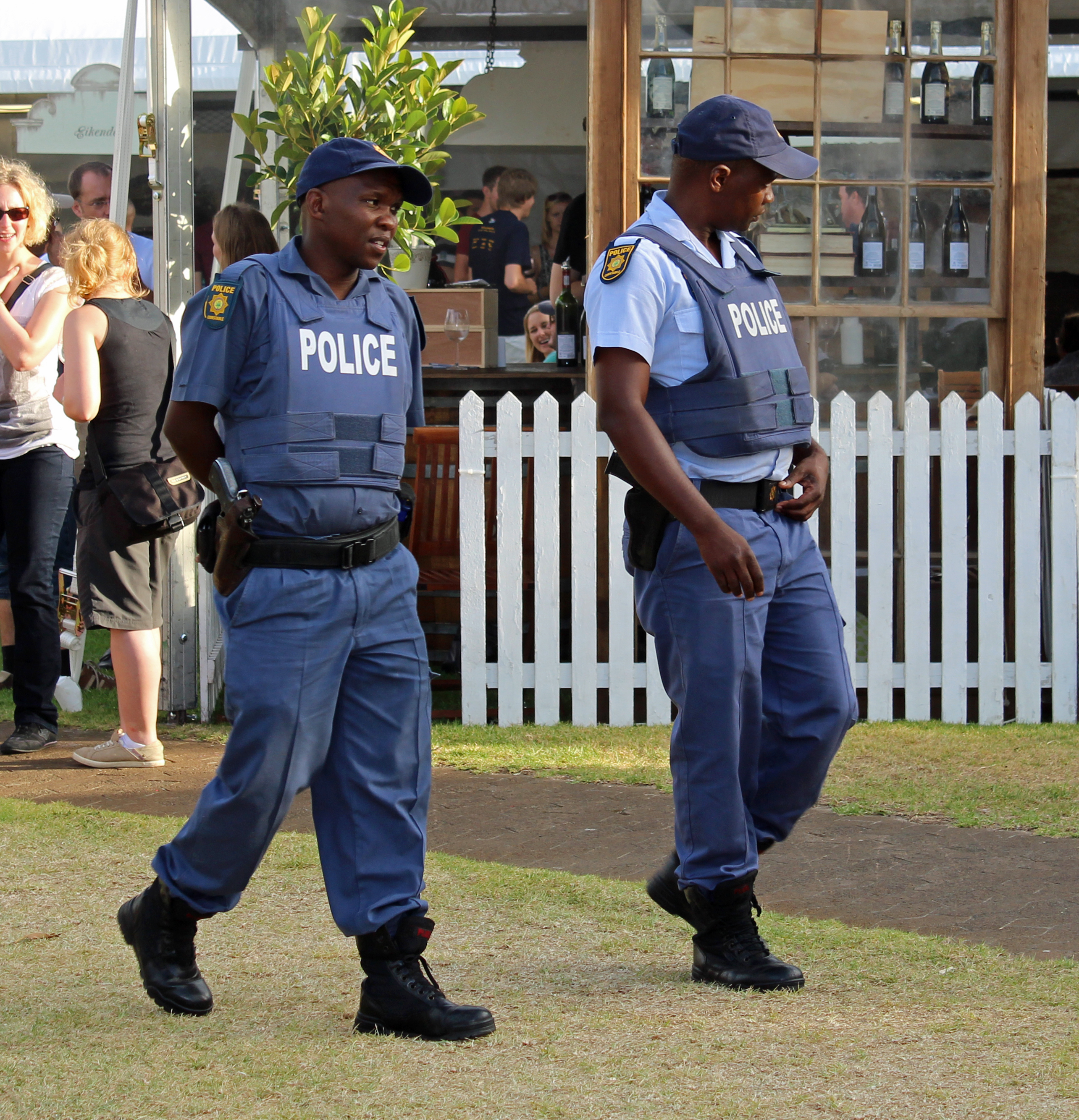 SAPS police officers, Stellenbosch Wine Festival Wine Expo 2014 on the Braak